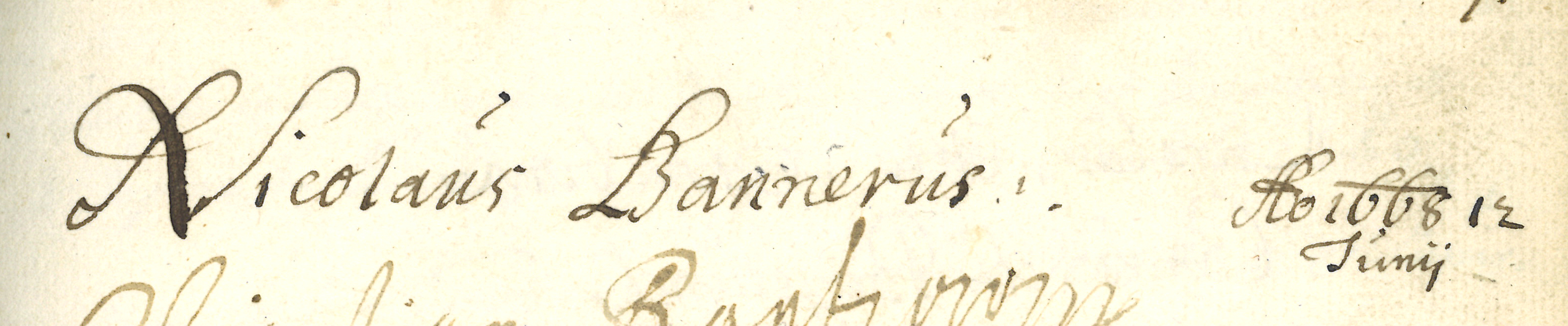 The signature of Swedish baron Nils Banérs (1654-1684) in the roll of students at Lund University in 1668. Banér has written the latin form of his name.